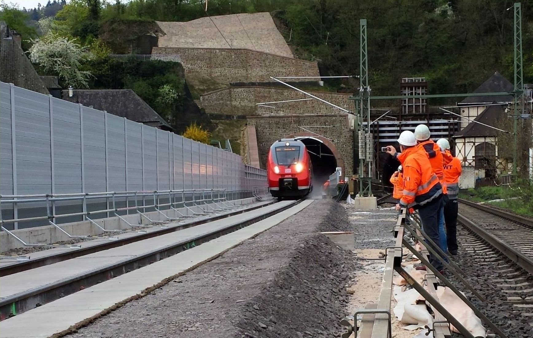 Passage of the first train through the New-Kaiser-Wilhelm-Tunnel in Cochem on April 7, 2014 at 8.35